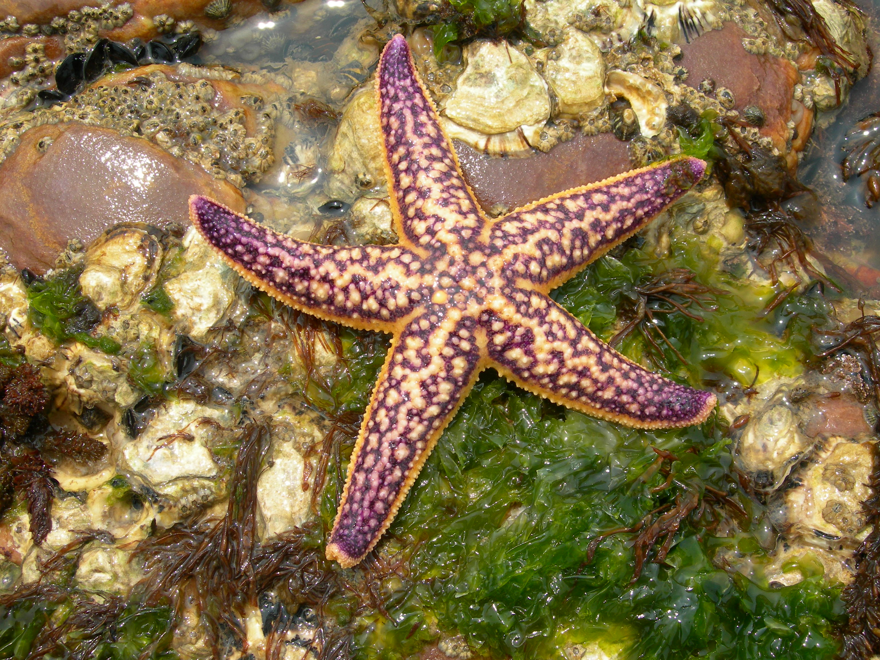 海星（正面）. Northern Pacific seastar, Asterias amurensis, dorsal view. Ventral view is Image:海星（反面）.JPG.